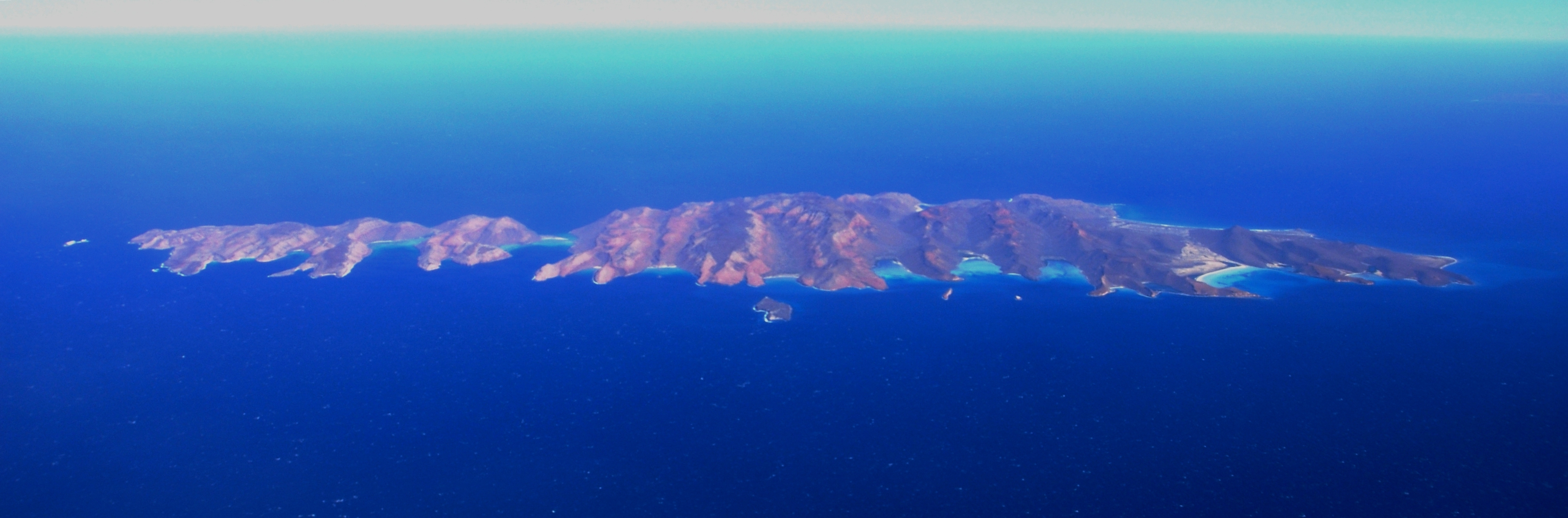 Oblique view of Espiritu Santo and Isla Partida Island. North is on the left